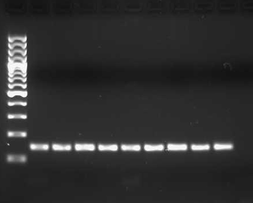 An image of a gel electrophoresis visualised by UV camera